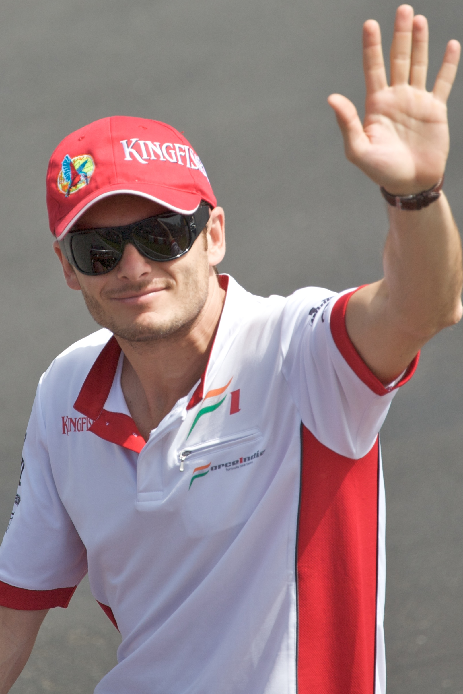 Giancarlo Fisichella at the 2008 Canadian Grand Prix.